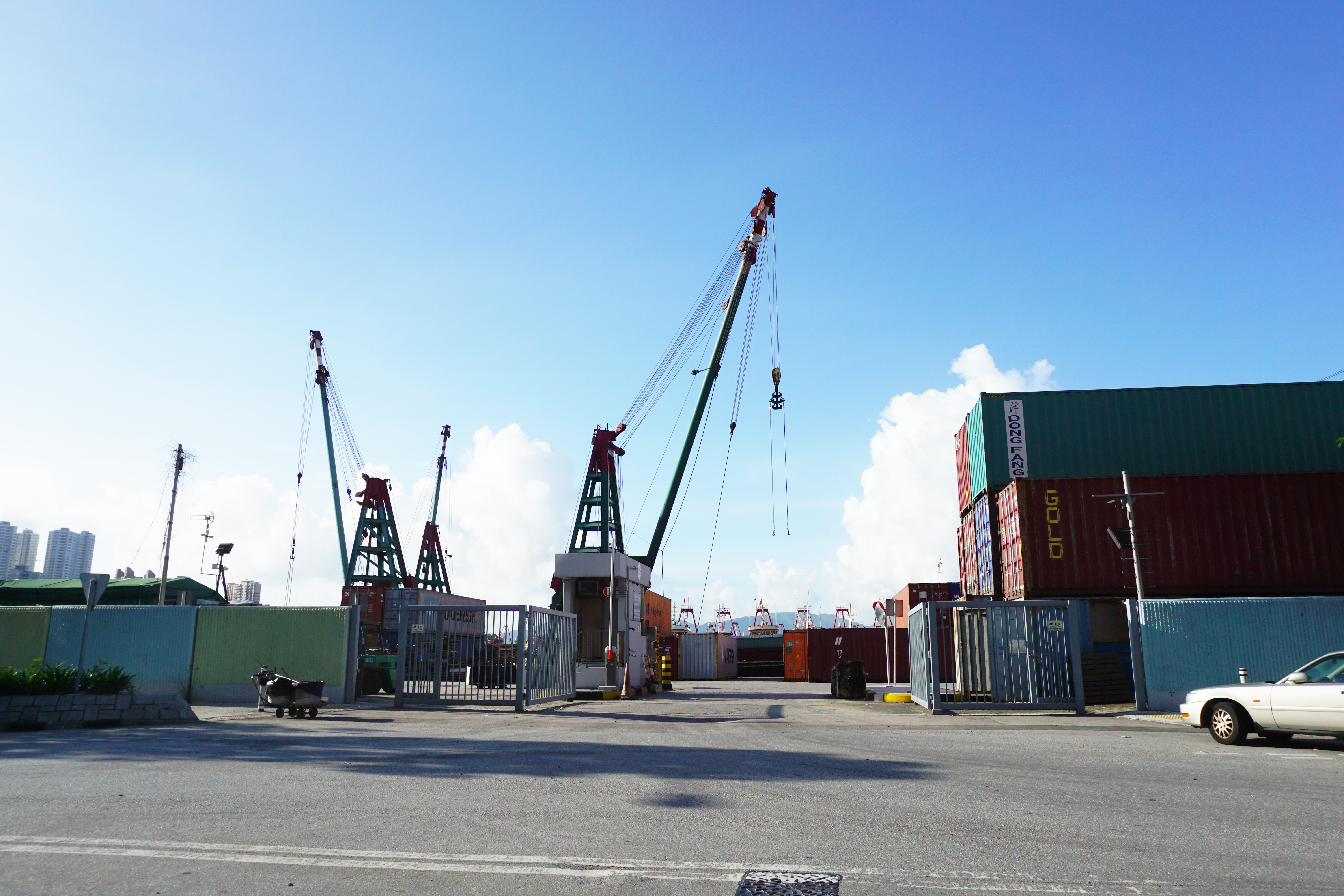 Marine Department Public Cargo Working Area in Tuen Mun, Hong Kong.